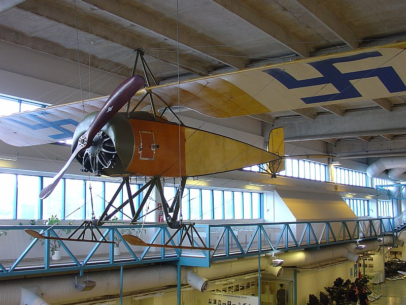 Thulin Typ D-replica